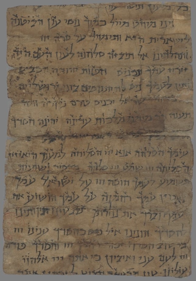 Selihah (penitential prayer) leaf, in Hebrew. Discovered in 1908 in the Dunhuang Caves of Gansu Province, China. Now held at the Bibliothèque nationale de France, Paris (Pelliot hébreu 1)